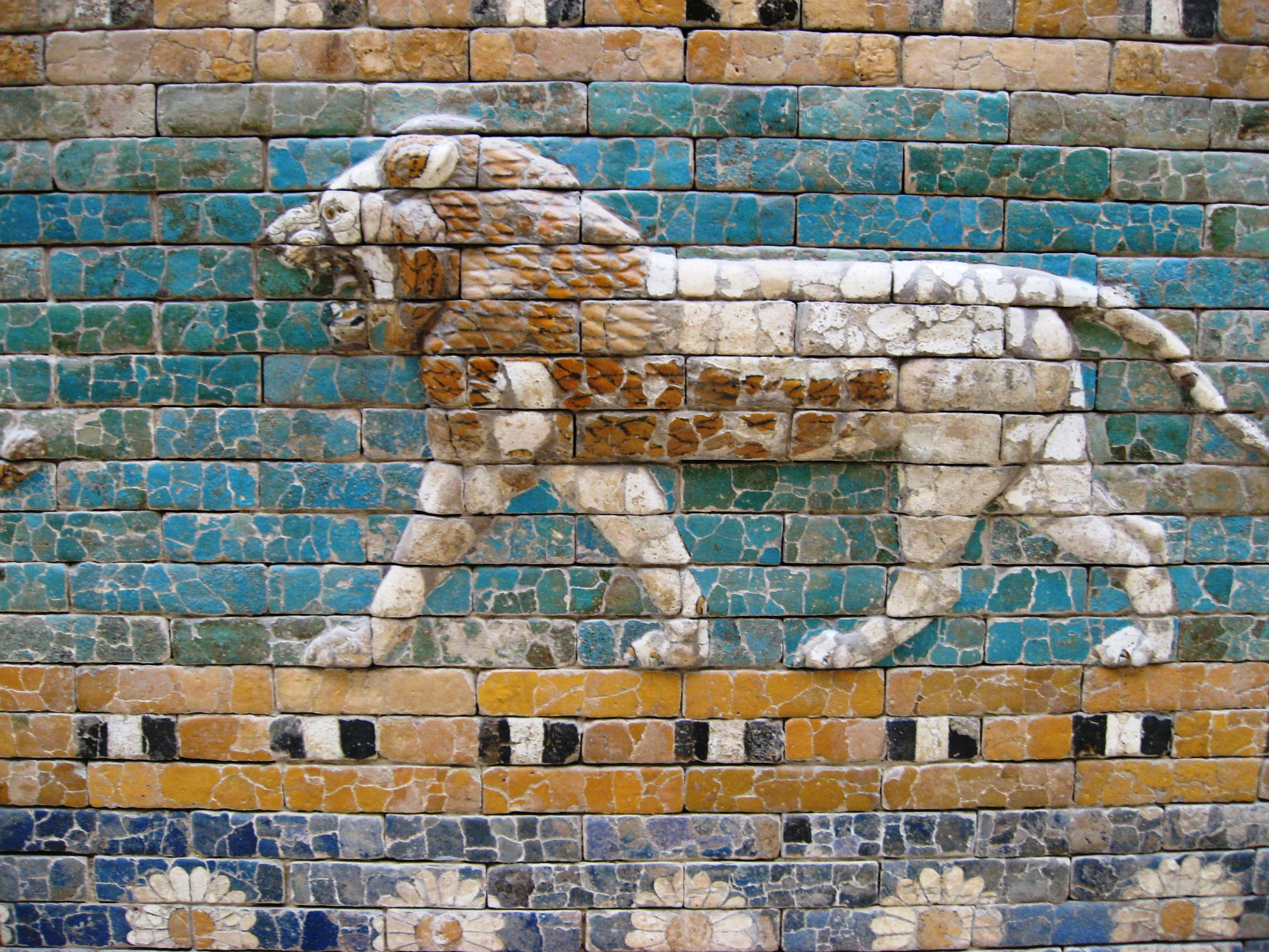 lions of the Procession street towards the Ishtar Gate, at the Pergamon Museum in Berlin.